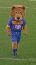 Mascot of Shrewsbury Town FC